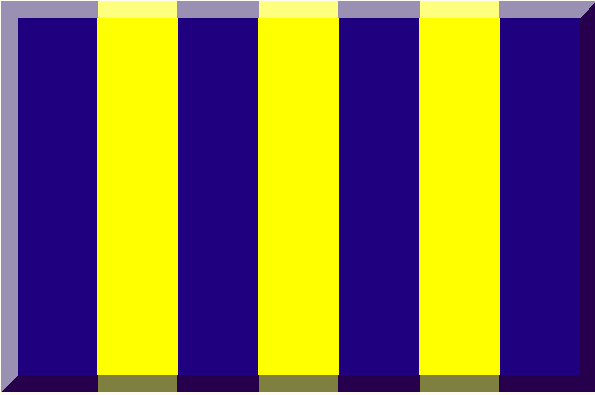 E' una versione rivisitata dei file e , per cui ho usato toinalità di giallo e di blu differenti, per realizzare una bandierina "specifica" ed identitaria dell'Hellas Verona Football Club, squadra italiana di calcio (ho considerato il numero di strisce più appropriato anche per una questione di leggibilità, che per il secondo file considero meno alta).